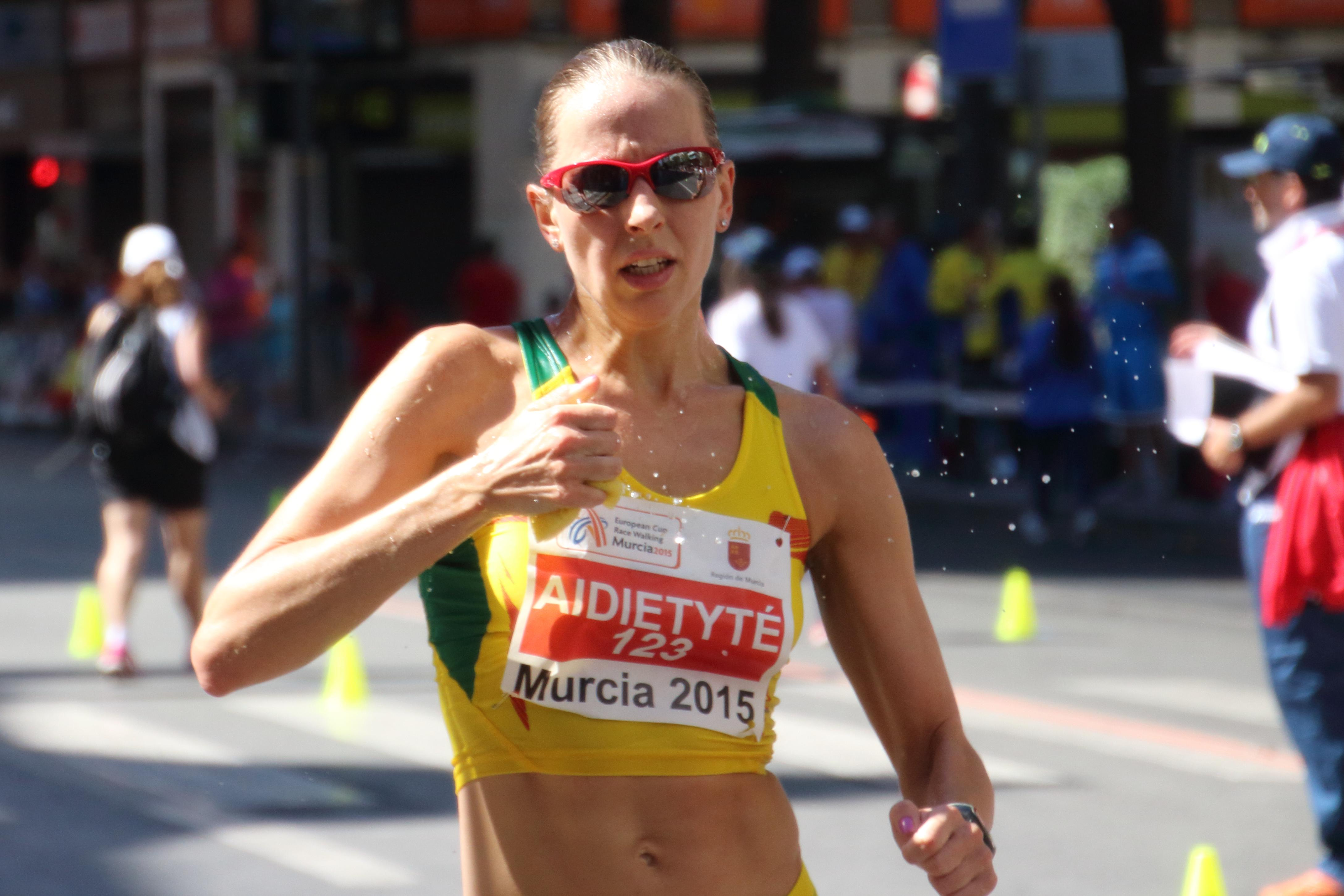 Neringa Aidietytė, lithuanian race walker in the European Cup Race Walking 2015 (Murcia, Spain).